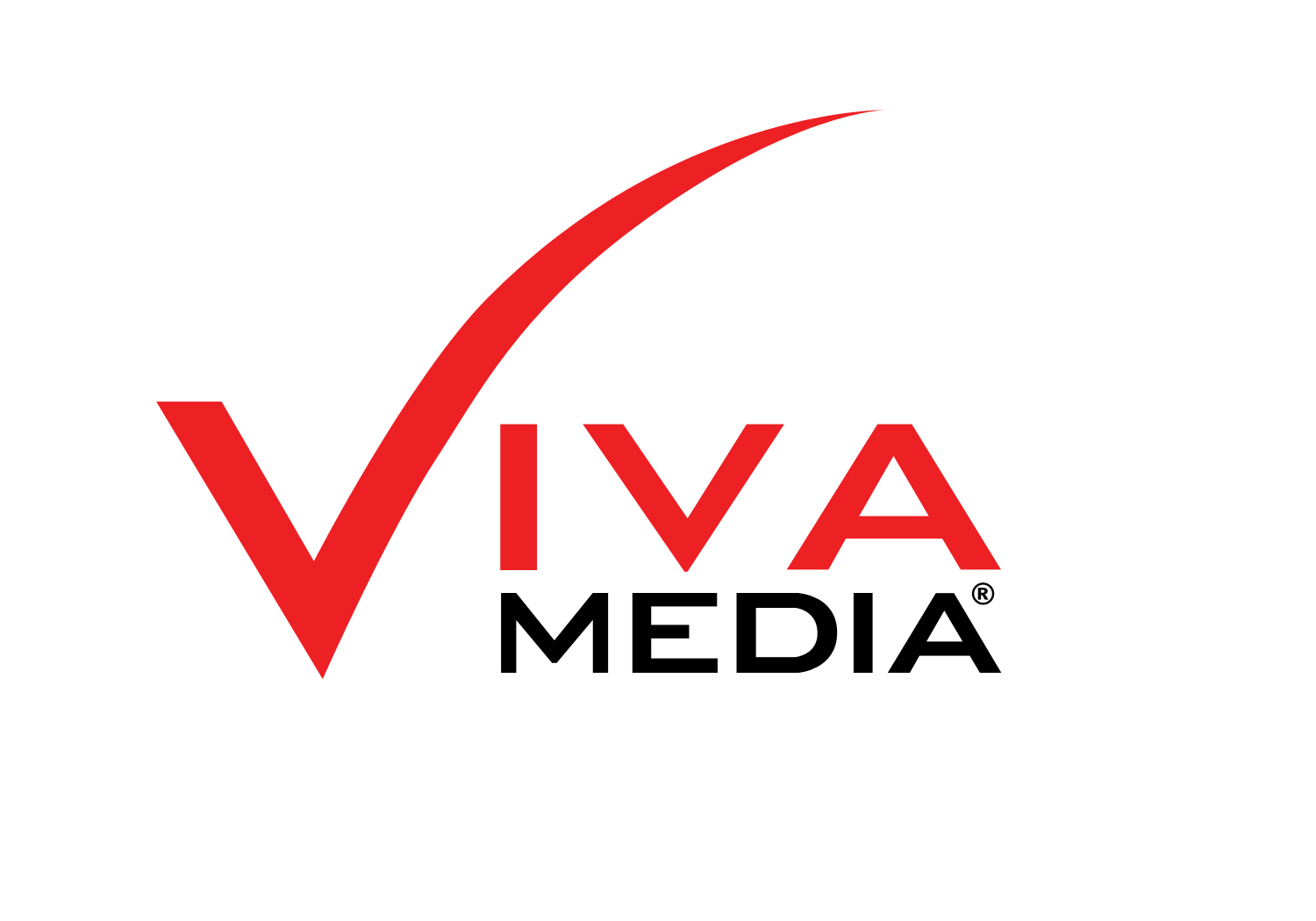 New Viva Media Company Logo